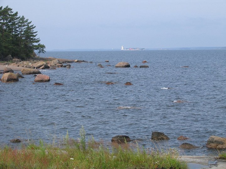 View from Mustaviiri island, part of Eastern Gulf of Finland National Park. Summer 2004. Please remember mention the author if you use the photo.